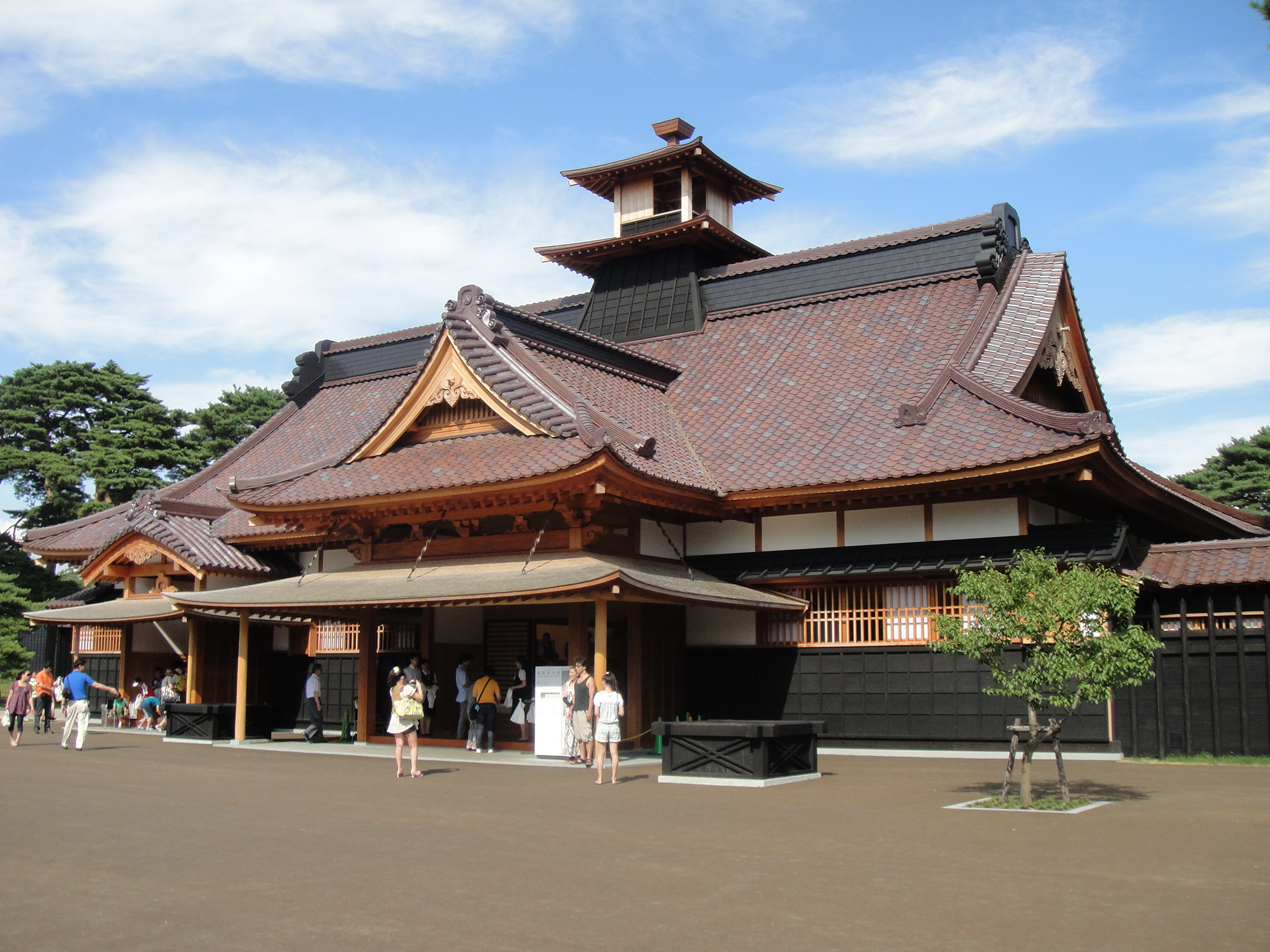 The restored governmental hall of Hakodate, Hokkaido, Japan. Originally built in 1866, torn down in 1871, and restored in 2010 in Goryokaku, Hakodate.